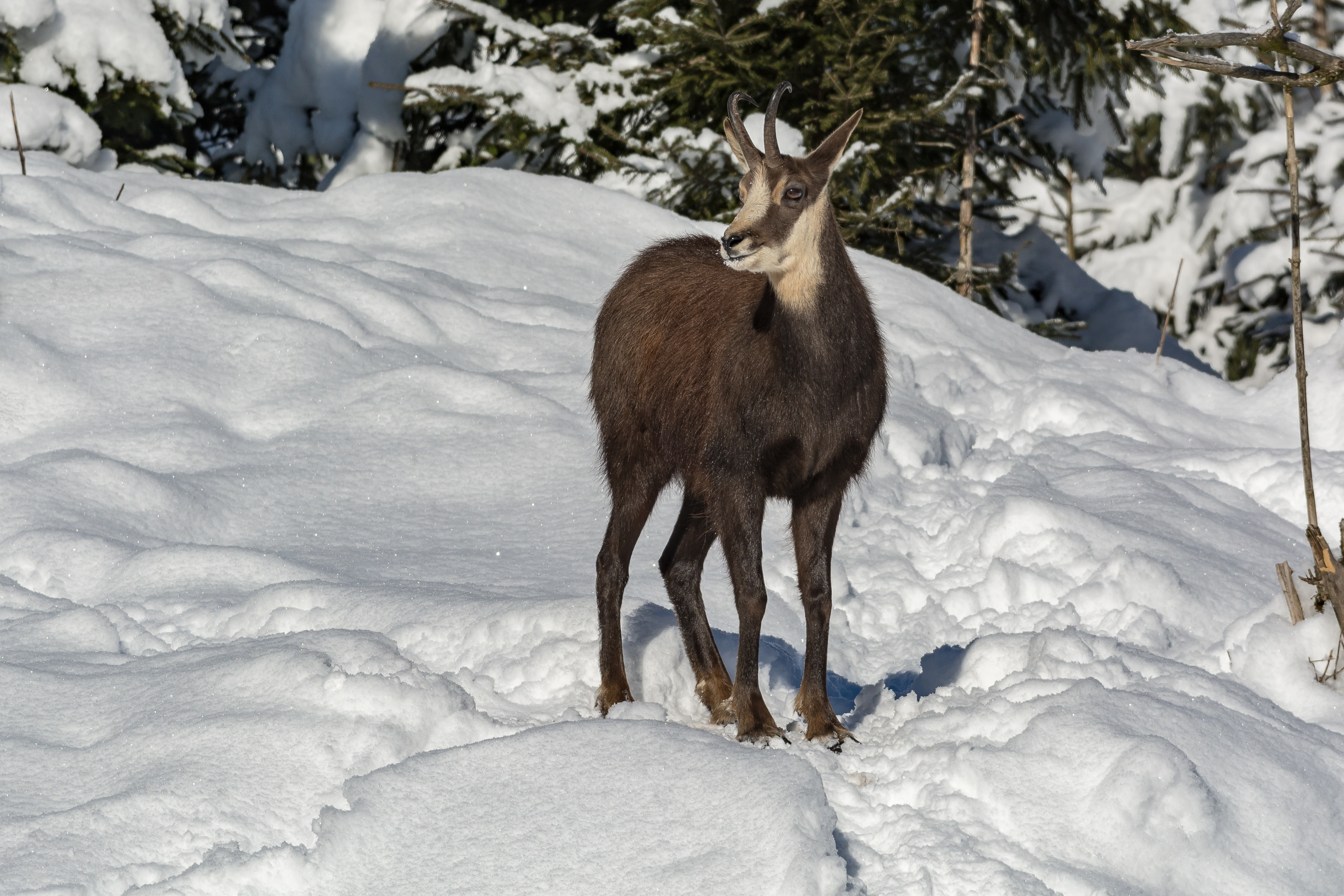 The chamois (Rupicapra rupicapra) is a species of subfamily Caprinae native to mountains in Europe.